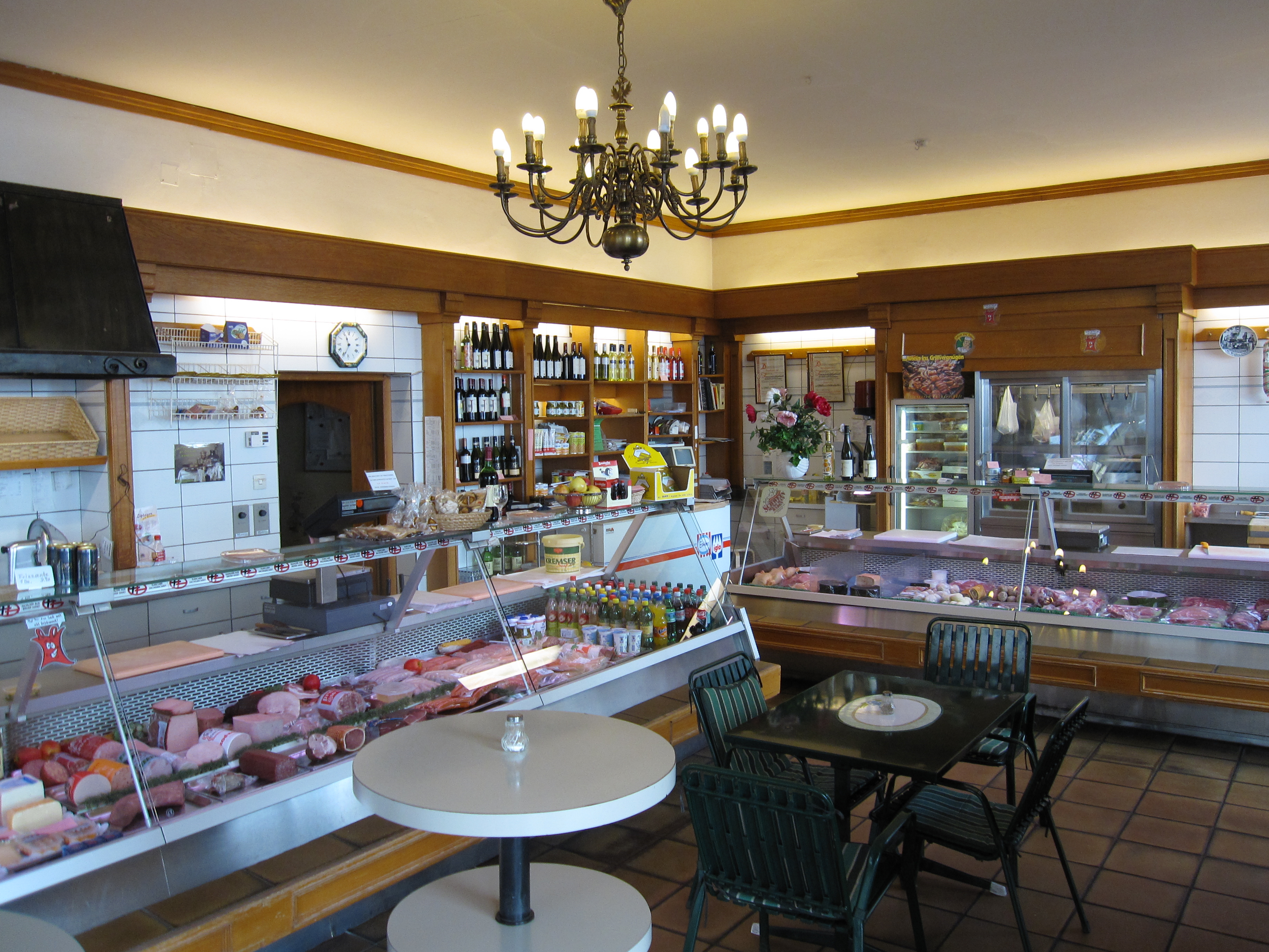 Interior of L. Weisshappel butcher in Vienna's I. district.